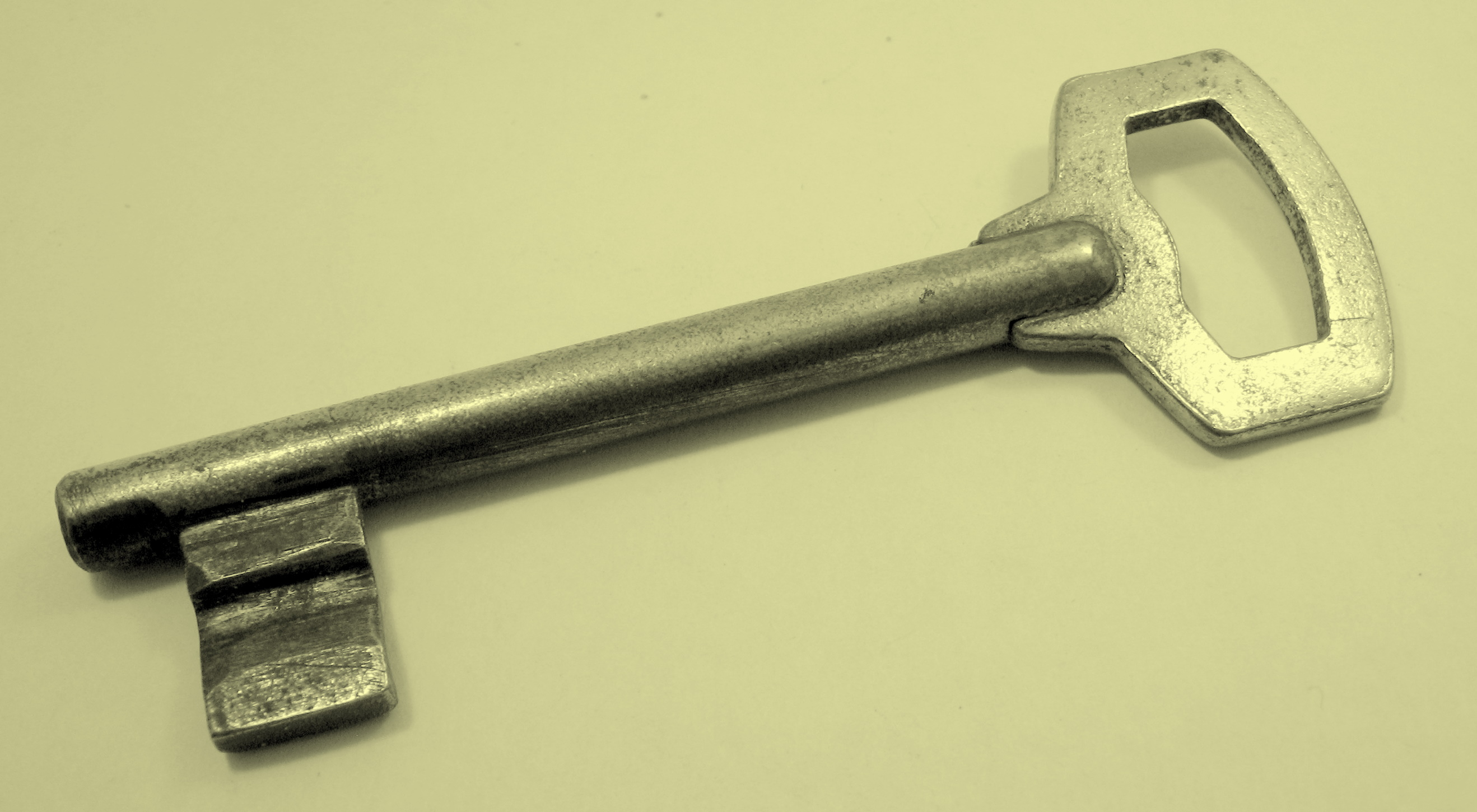 a key